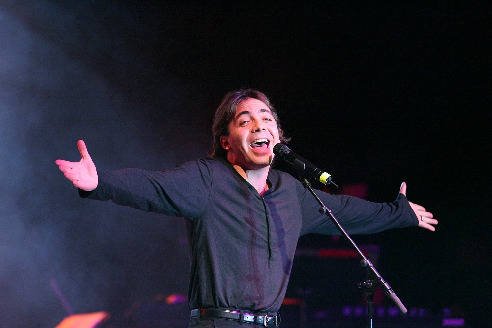 Christian Castro in concert at the Chumash Casino Resort in Santa Ynez, California